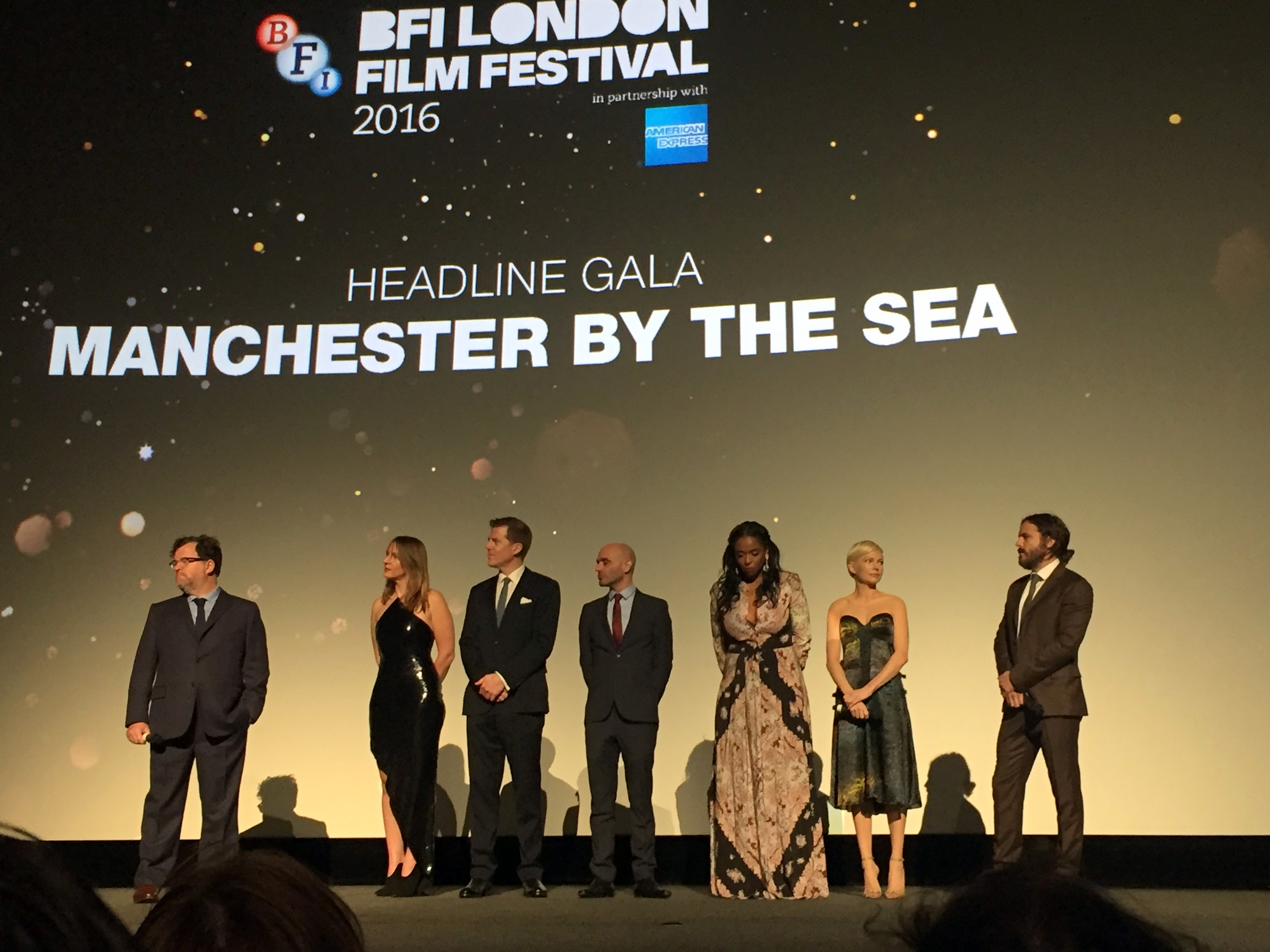 Kenneth Lonergan, Michelle Williams, Casey Affleck and four producers of Manchester by the Sea at the European premiere